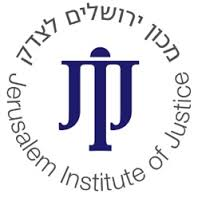 This is the logo of the Jerusalem Institute of Justice, a human rights organization operating in Jerusalem.